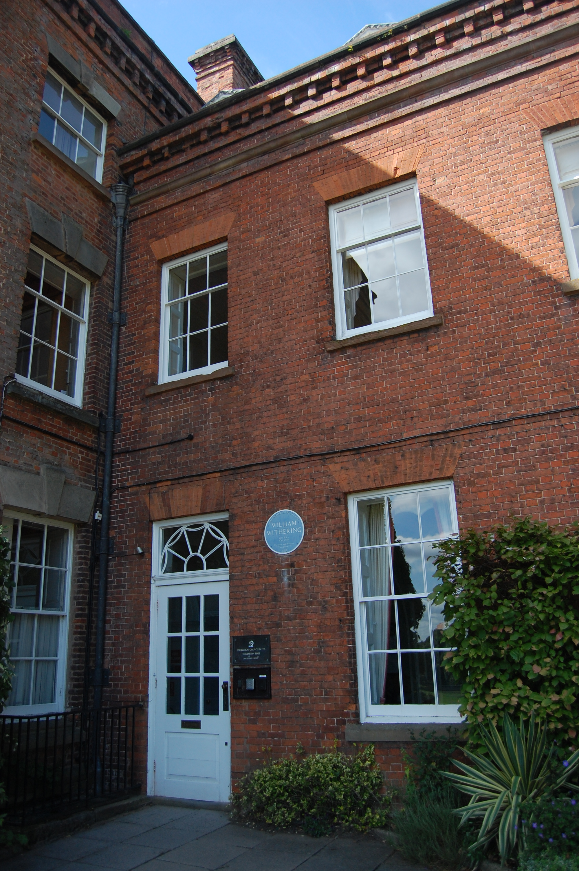 Edgbaston Hall, Birmingham, England.